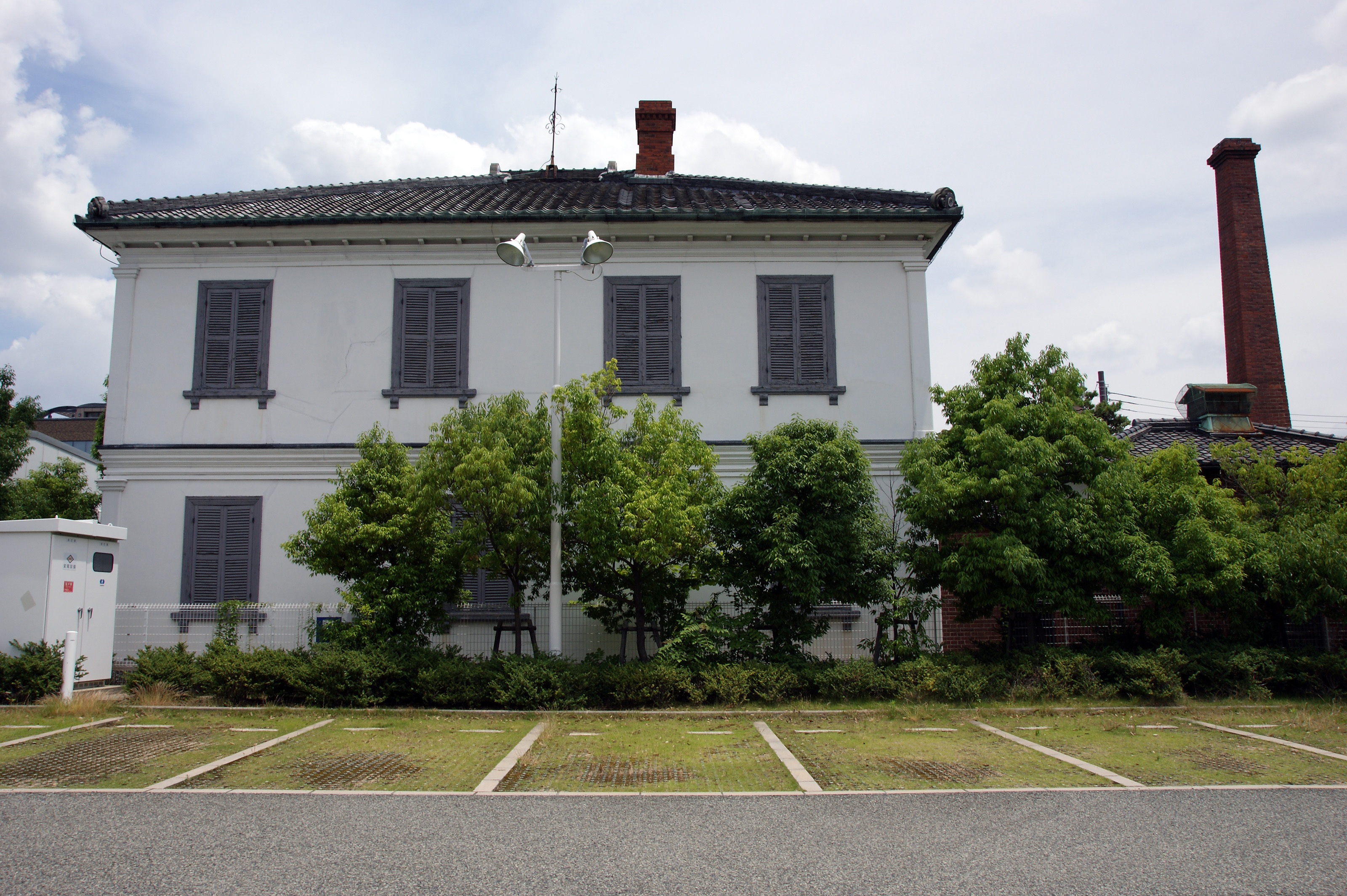 Old Tatsuuma Kijuro Residence in Nishinomiya, Hyogo prefecture, Japan